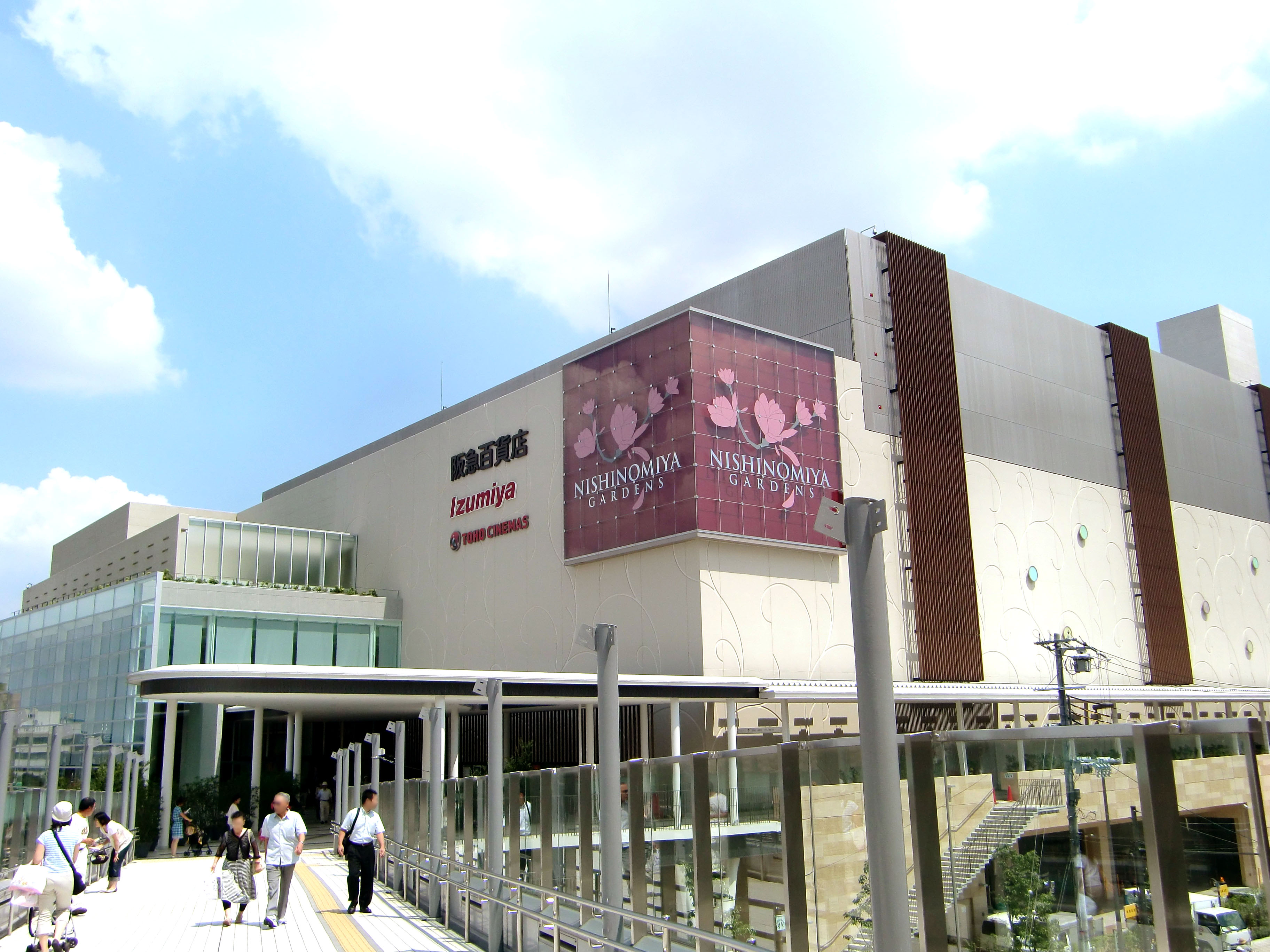 HANKYU NISHINOMIYA GARDENS,14-2 Takamatsucho Nishinomiya-City Hyogo Japan.